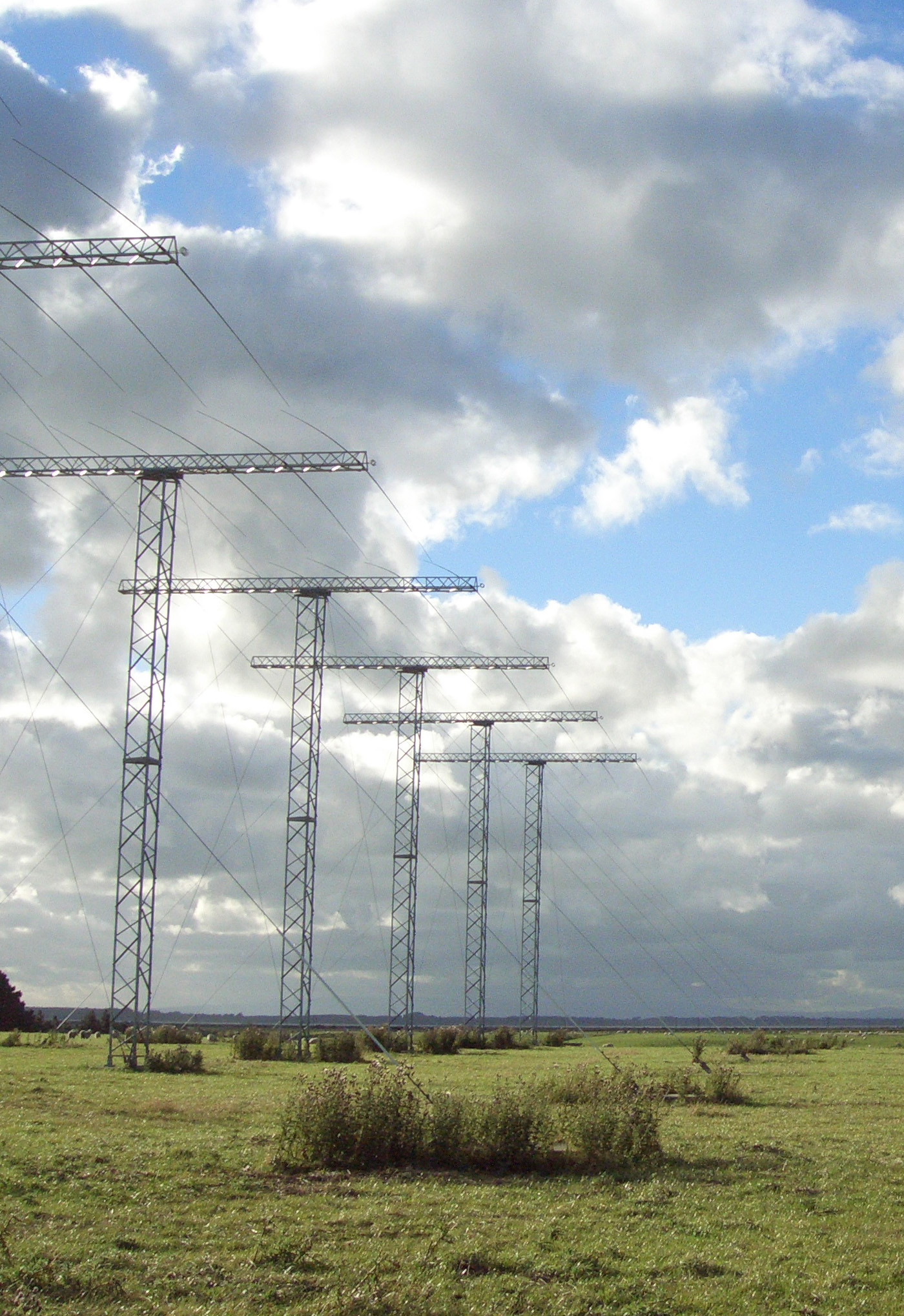 Unwin Radar scientific radar array at Awarua, Southland, New Zealand. Photo by Peter Dowden.